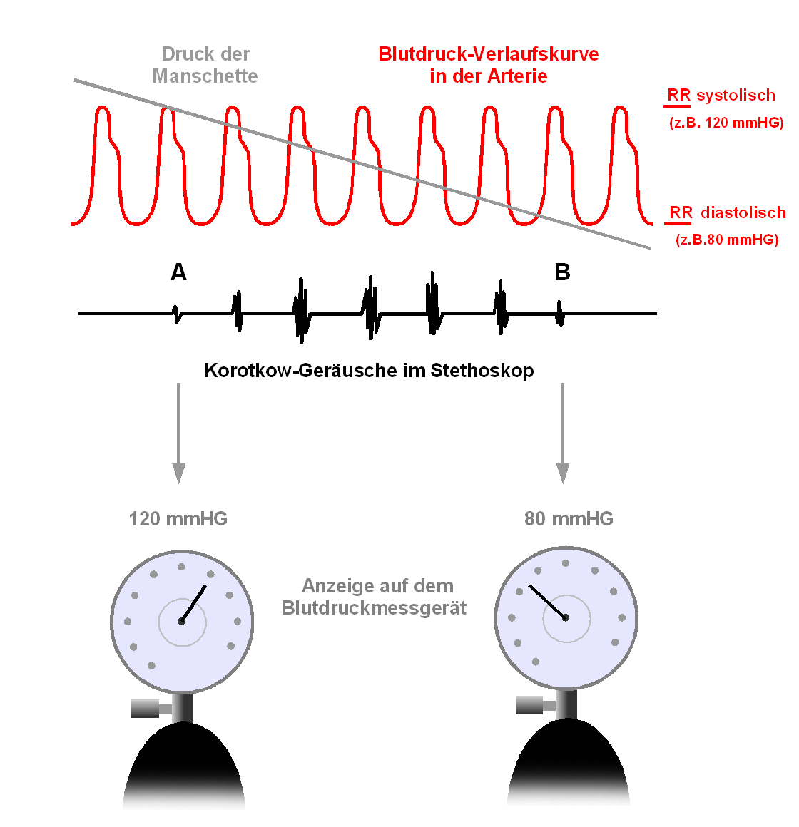 blood pressure measurement using the auscultatory method based on the (first) Korotkoff-sound